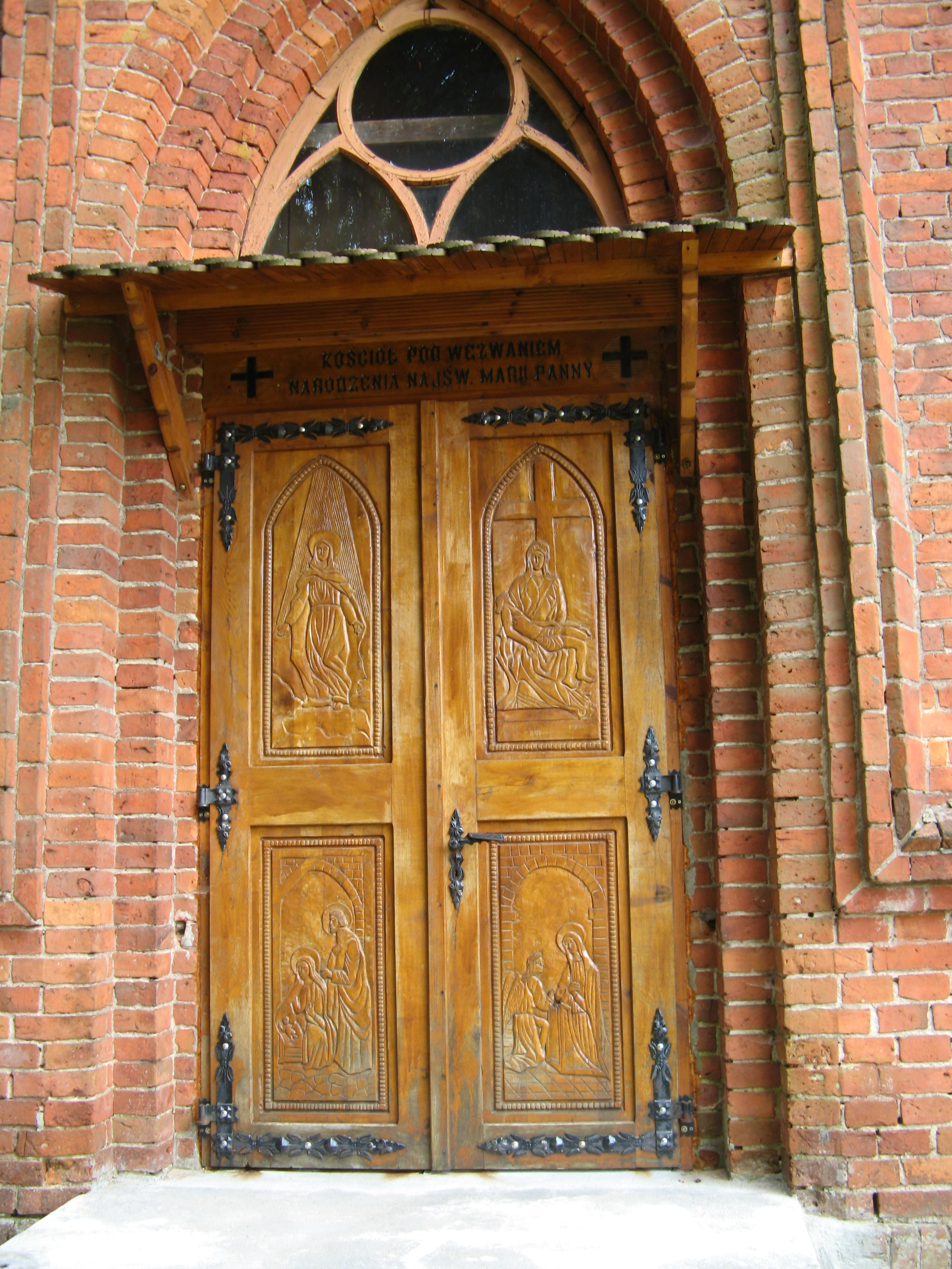 Entrance of the church of the Nativity of the Virgin Mary in Kłodzino, West Pomeranian Voivodeship in Poland